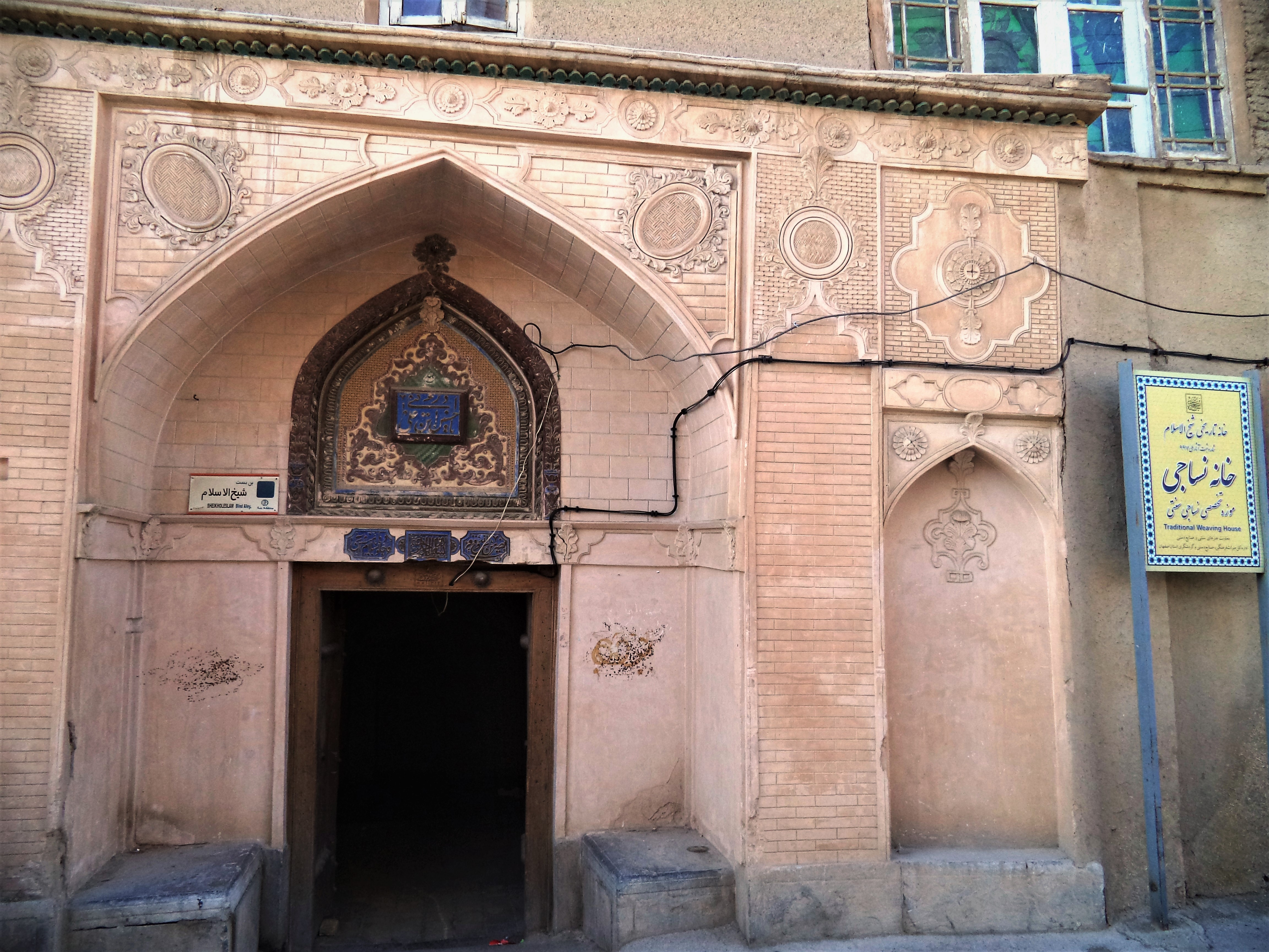 “Traditional Weaving House” was inaugurated in the House of Sheikholeslam in 2011. It includes workshops to teach various types of traditional textile production methods